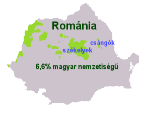 Hungarians in Romania